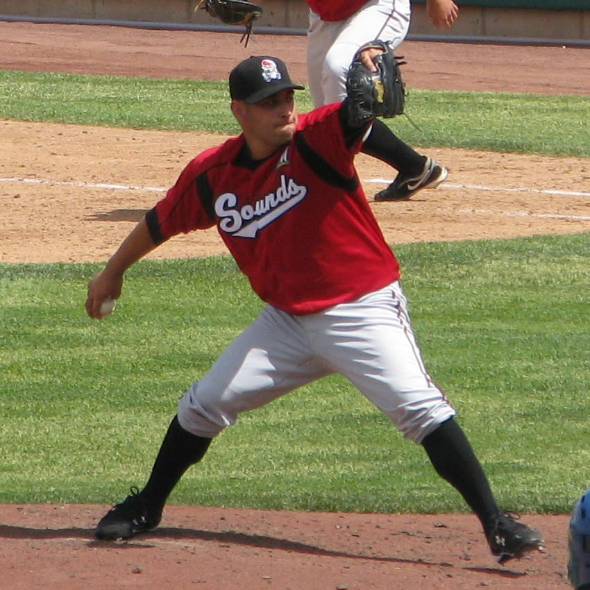 Marco Estrada, a pitcher for the minor league Nashville Sounds, in mid-pitching motion during a game at Isotopes Park on May 9, 2010